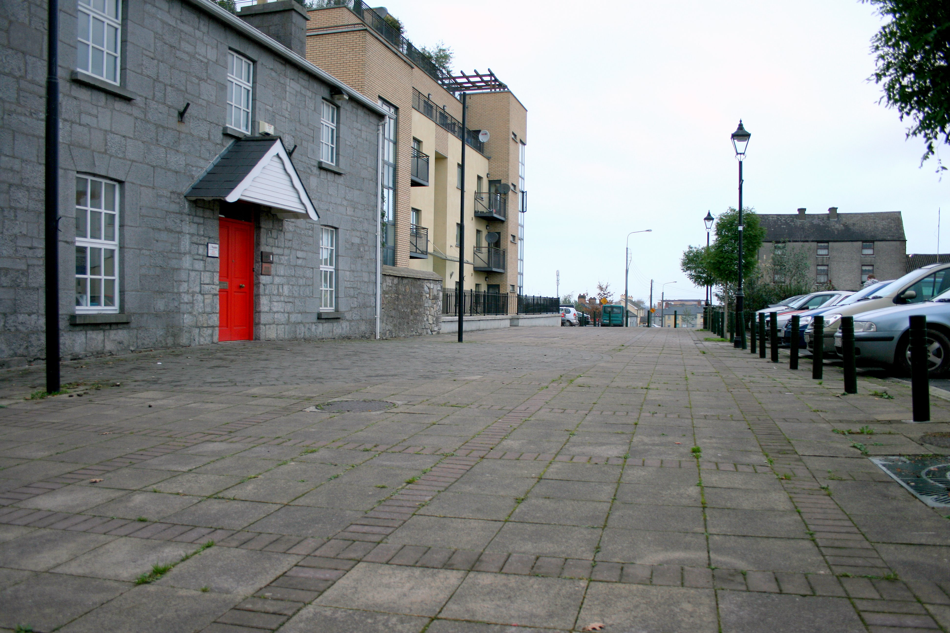 Longford Chamber of Commerce